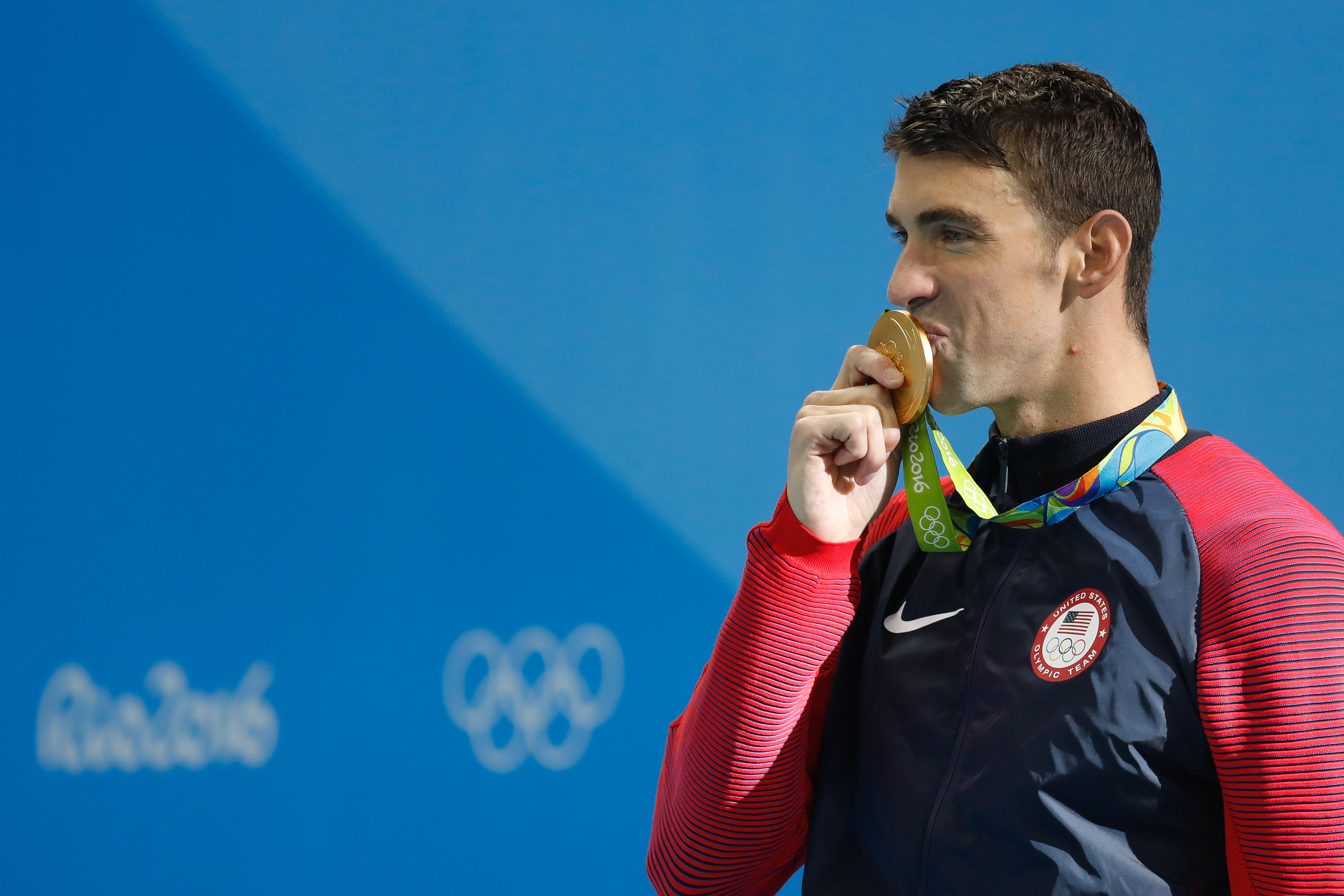 Rio de Janeiro - Michael Phelps, dos Estados Unidos, ganha sua 20ª medalha de ouro olímpica, nos 200m nado borboleta, nos Jogos Rio 2016. (Fernando Frazão/Agência Brasil)